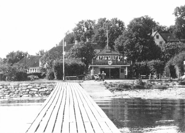 Vintage Photo of Roskilde Tonlub in Roskilde, Denmark